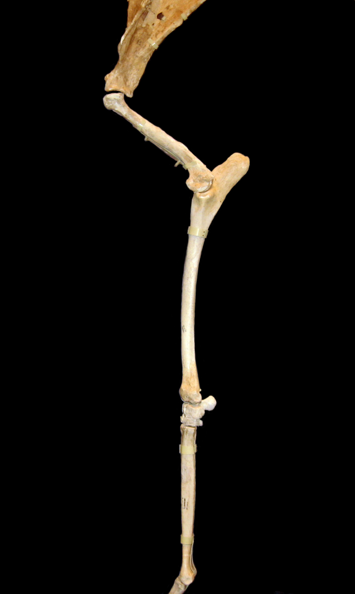 Megatylopus frotn limb.